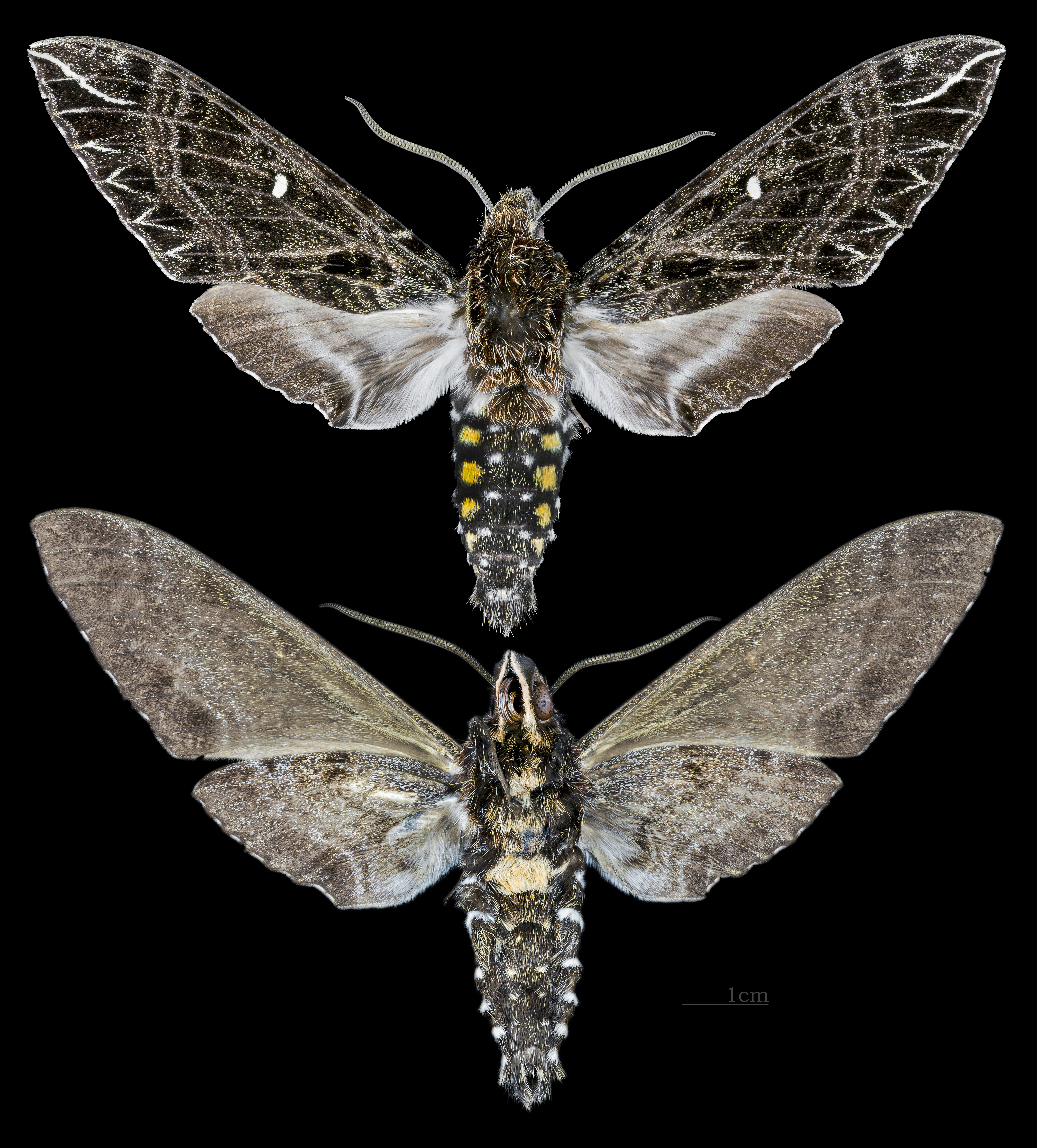 Euryglottis guttiventris - Two views of same specimen Collection of the Mathematician Laurent Schwartz